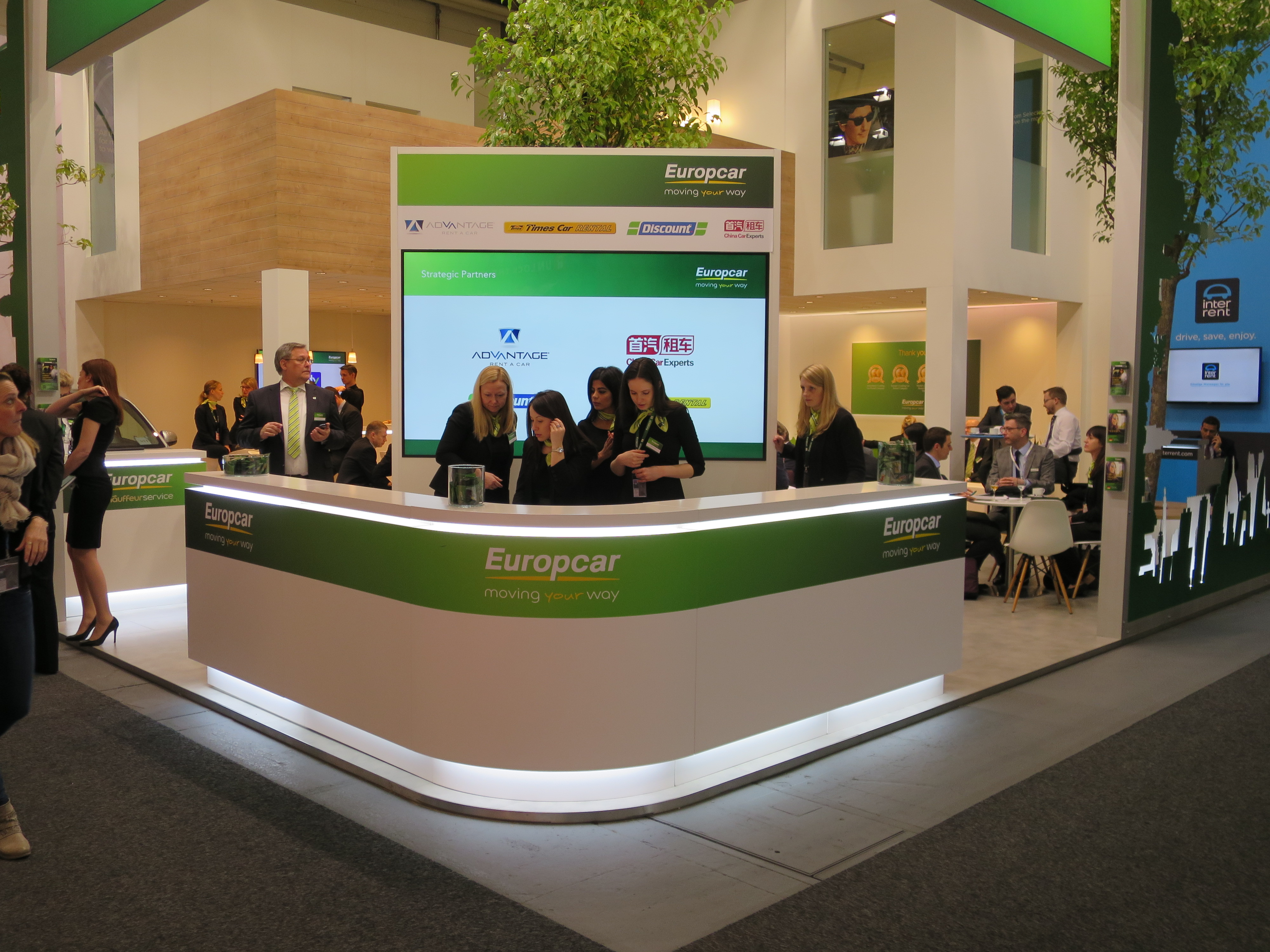 Europcar.